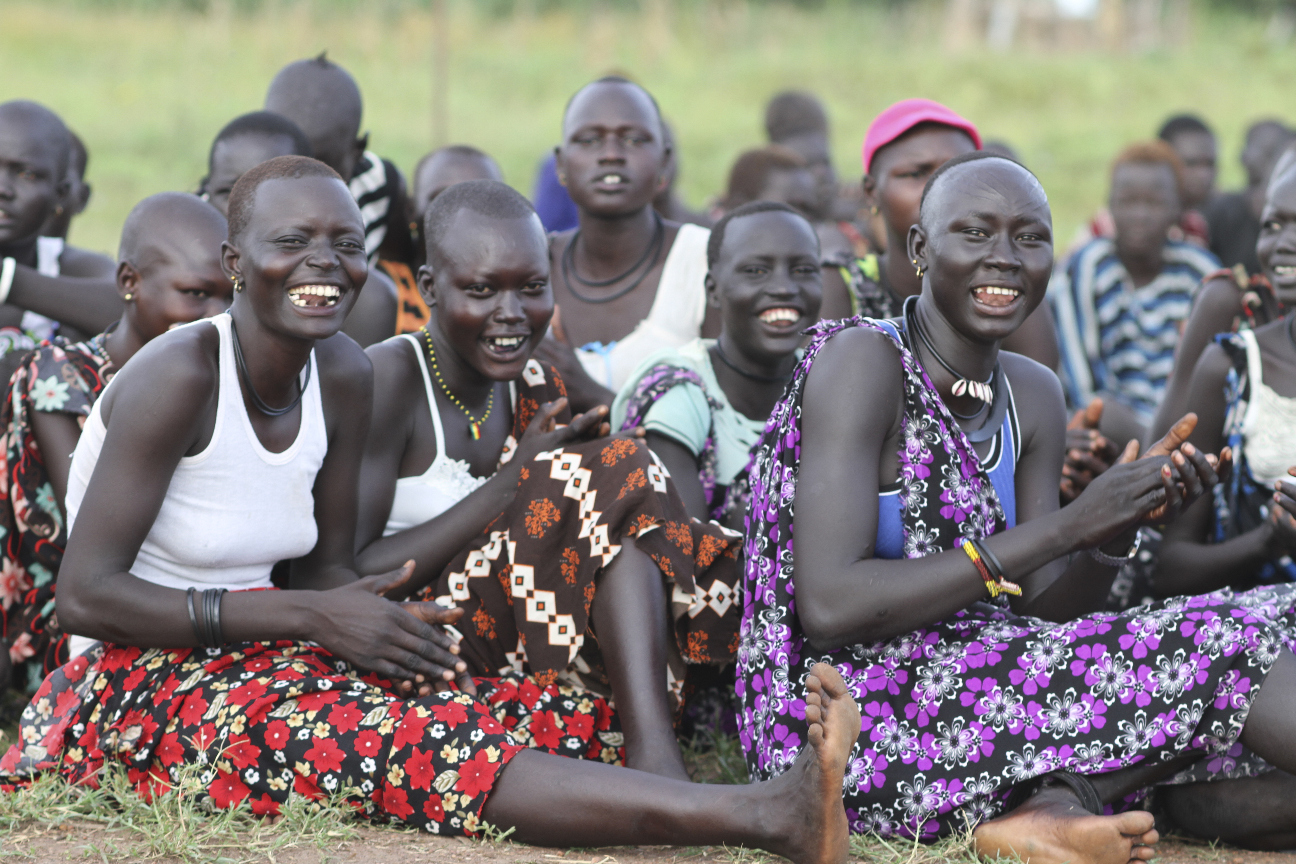 This is an image with the theme "Play" from: South Sudan